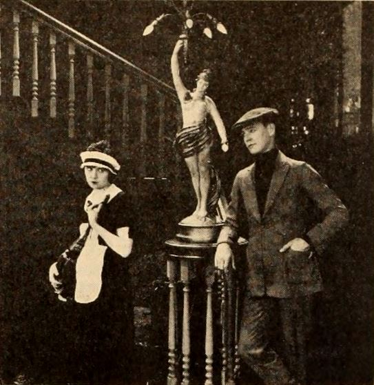 Still from the American comedy film 45 Minutes from Broadway (1920) with Dorothy Devore and Charles Ray, on page 70 of the August 28, 1920 Exhibitors Herald.